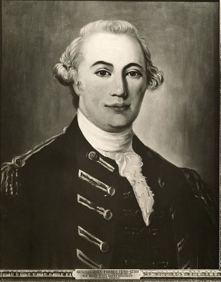 General John Forbes (1710-1759). Scottish-born general during the French and Indian war who selected George Washington as an aide and served withHenry Bouquet. He was responsible for capturing Fort Duquesne, renaming it Fort Pitt. Copied from the painting in the possesion of The Royal Scots Greys Regiment, Aldershot, England.